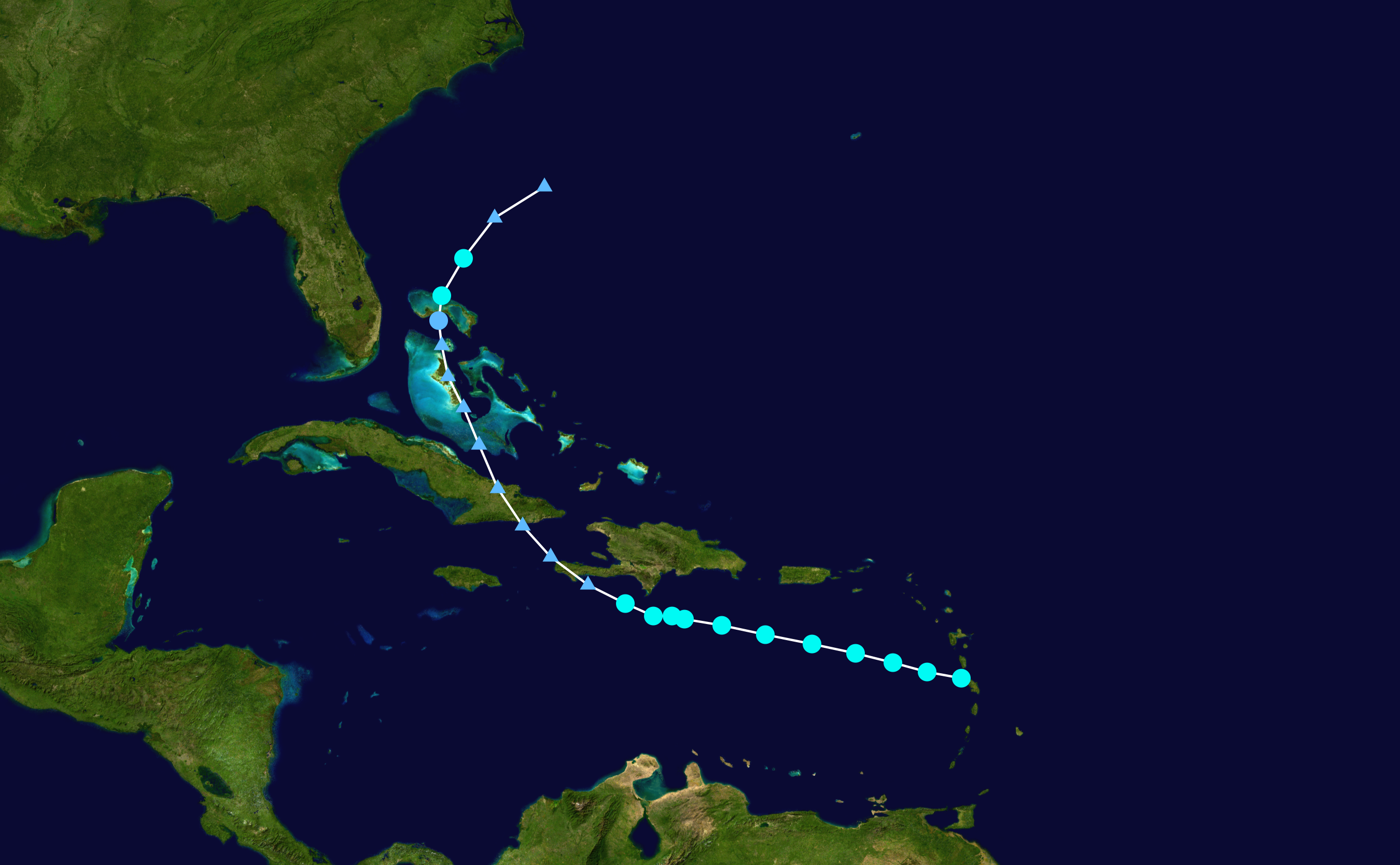 Track map of Tropical Storm Emily of the 2011 Atlantic hurricane season. The points show the location of the storm at 6-hour intervals. The colour represents the storm's maximum sustained wind speeds as classified in the Saffir–Simpson scale (see below), and the shape of the data points represent the nature of the storm, according to the legend below. Saffir–Simpson scale Tropical depression≤38 mph≤62 km/h Category 3111–129 mph178–208 km/h Tropical storm39–73 mph63–118 km/h Category 4130–156 mph209–251 km/h Category 174–95 mph119–153 km/h Category 5≥157 mph≥252 km/h Category 296–110 mph154–177 km/h Unknown Storm type Tropical cyclone Subtropical cyclone Extratropical cyclone / Remnant low / Tropical disturbance / Monsoon depression